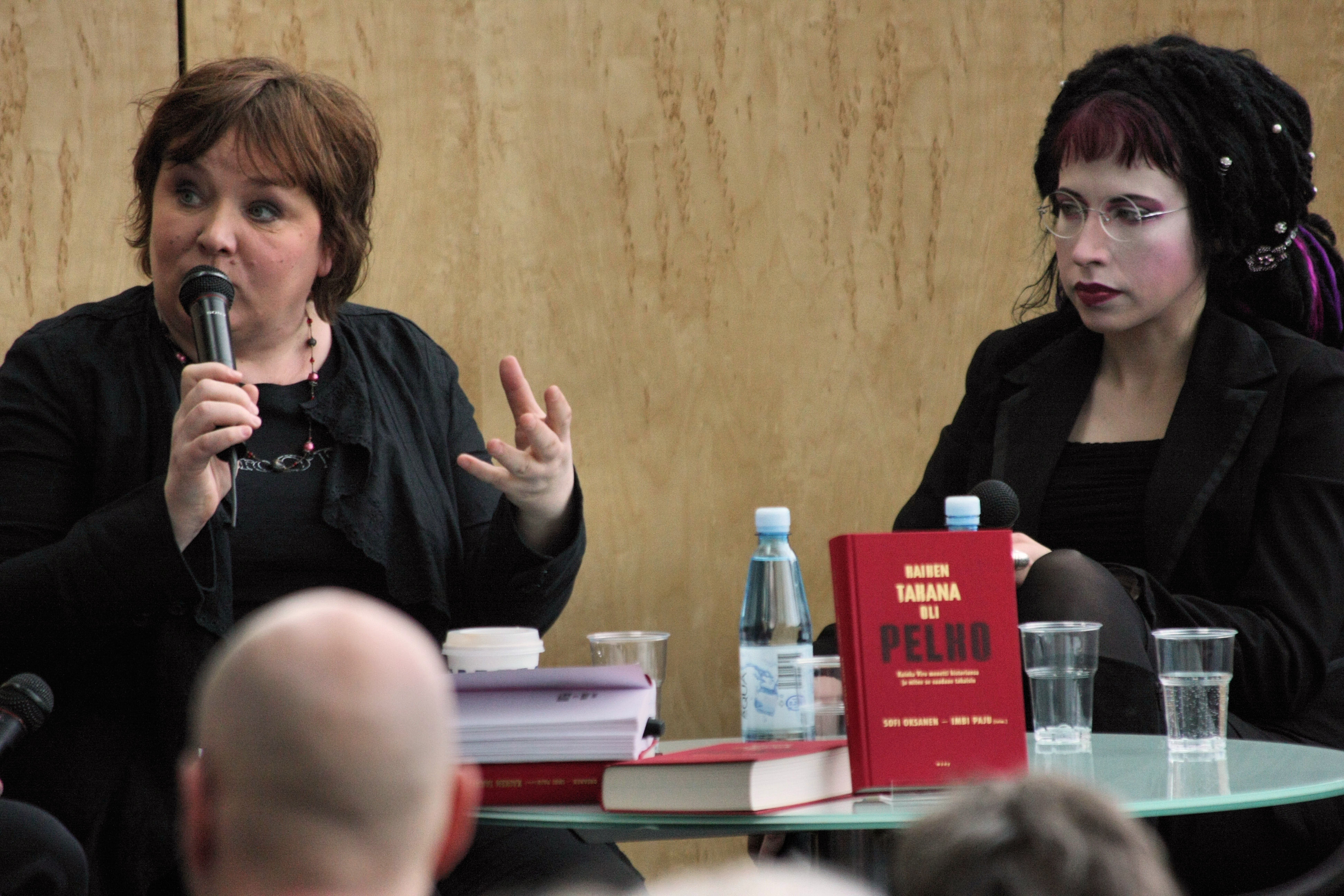 Imbi Paju and Sofi Oksanen at the book release of "Kaiken takana oli pelko".